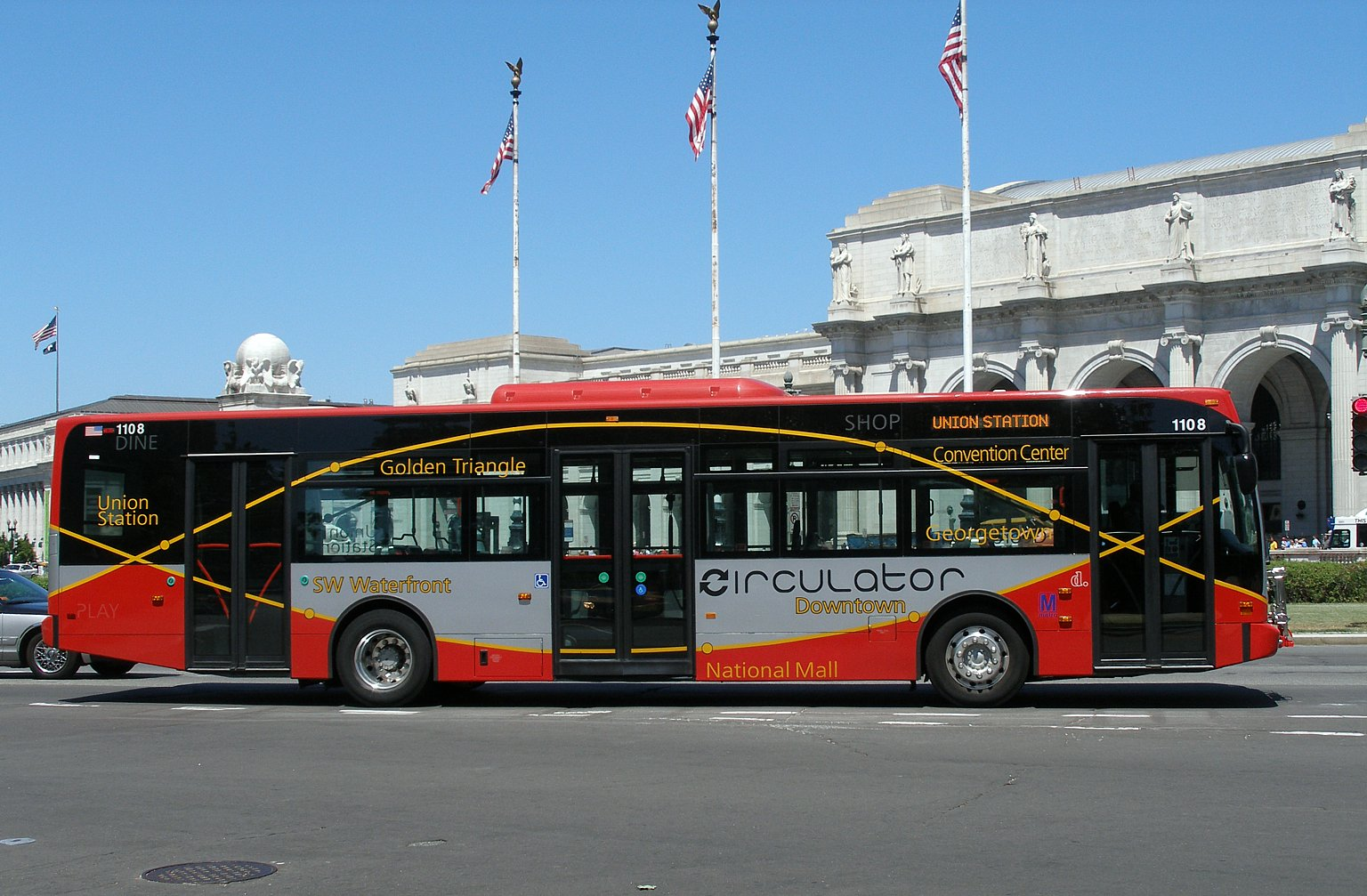 Summary A DC Circulator bus in front of Union Station in Washington, D.C.